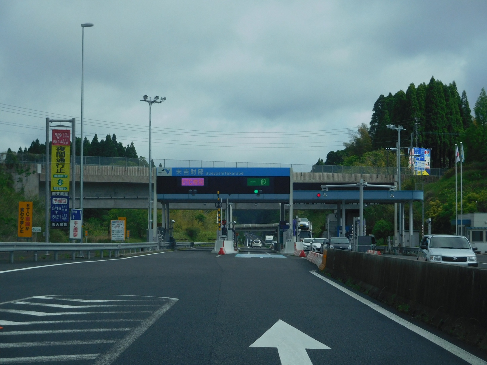 The Higashi-Kyushu Expressway "Sueyoshi-Takarabe Toll Gate" in Soo City, Kagoshima Prefecture, Japan.